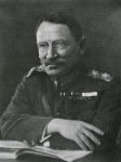 Greek Lieutenant general Alexandros Mazarakis (1874-1943)